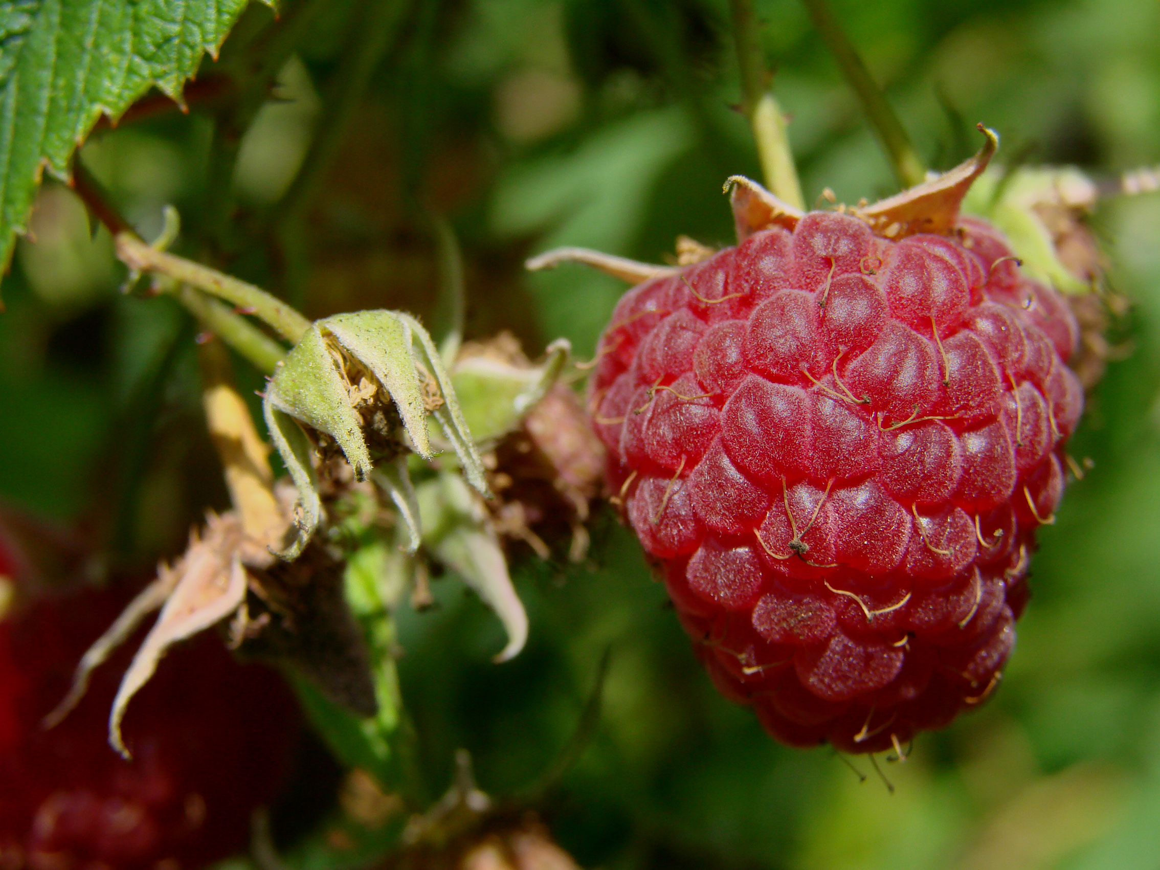 A mellow raspberry (Rubus idaeus).